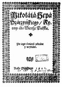 cover of book from XVII century